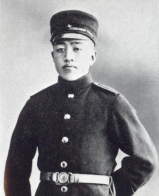 portrait of the later japanese spy doihara kenji being cadet at tokyo military school (陸軍幼年学校, rikugun yōnen gakkō) in 1903